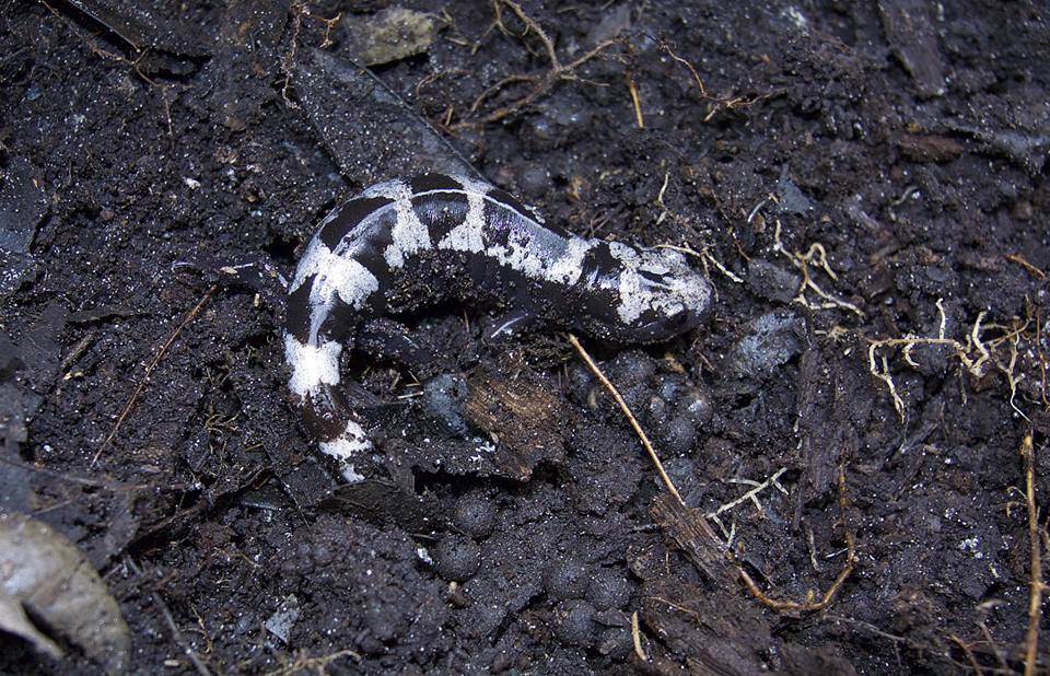 female marbled salamander (Ambystoma opacum) with eggs